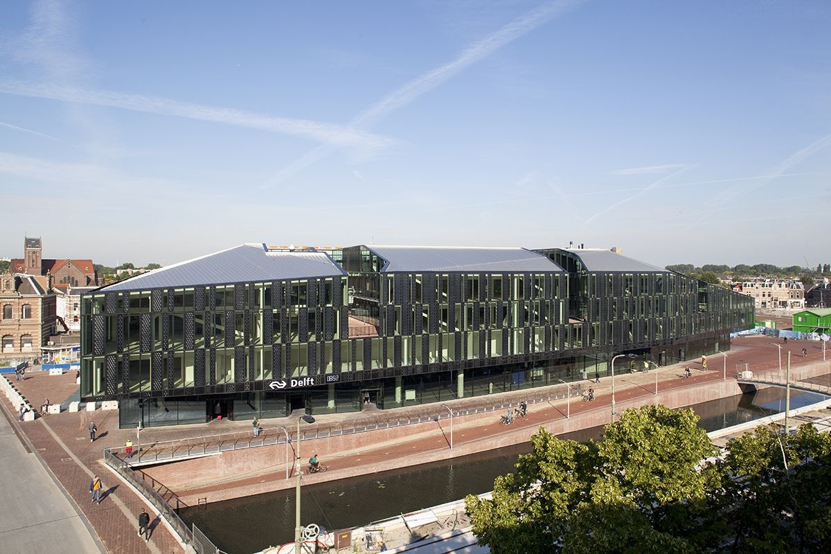 A new landmark in Delft